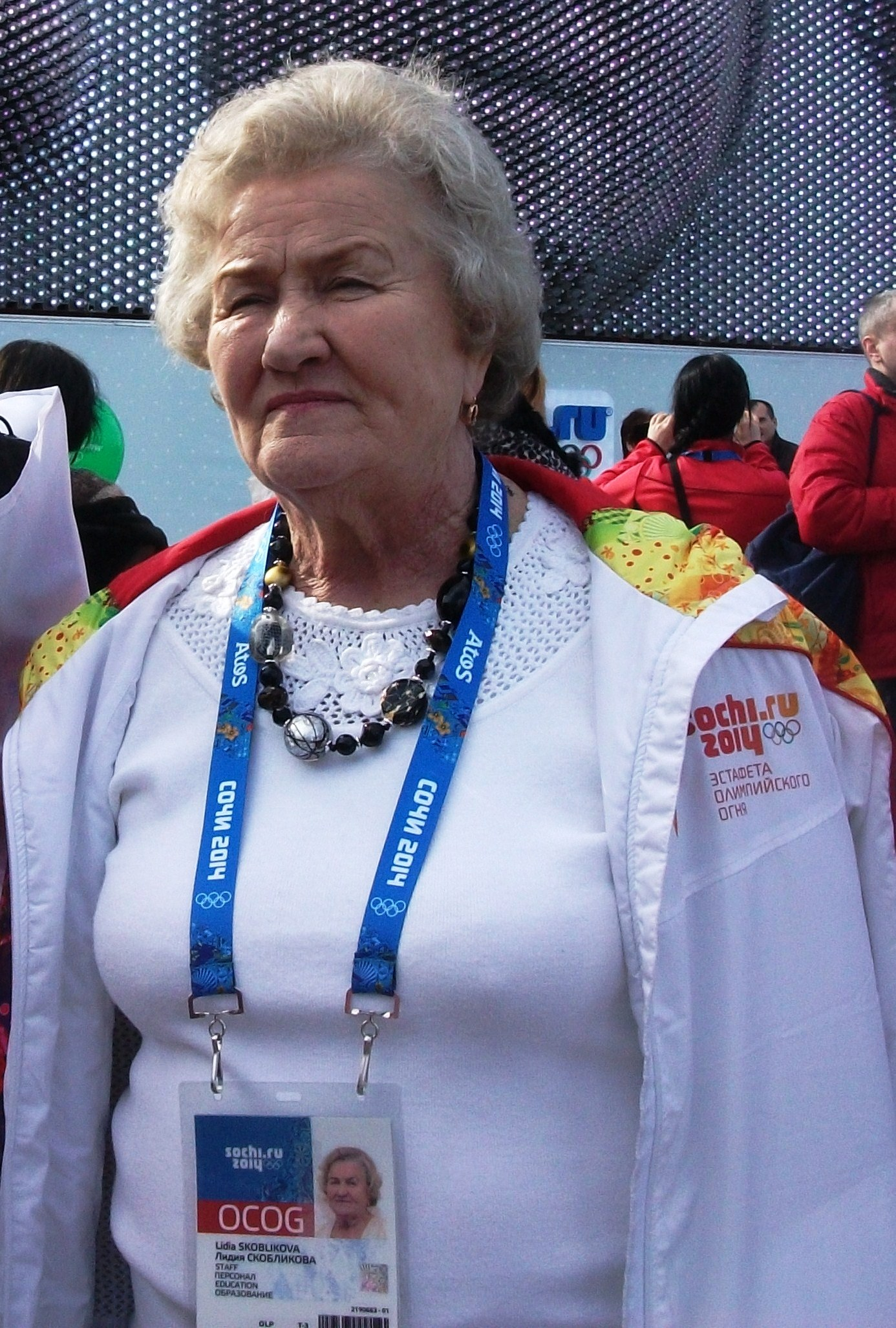 Lidiya Pavlovna Skoblikova is a retired Russian speed skater and coach. Representing the USSR Olympic team during the Olympic Winter Games in 1960 and 1964, she won a total of six gold medals. She also won 25 gold medals at the world championships and 15 gold medals at the USSR National Championships in several distances. The first athlete to earn four gold medals at a single Olympic Winter Games. The photo is made at the Winter Olympic Games 2014 in the Olympic Park of Sochi.